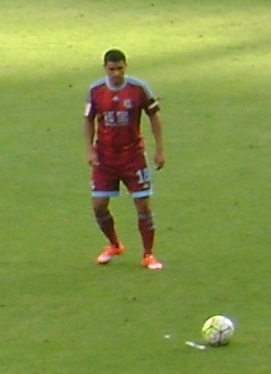 Chory Castro